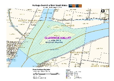 Ulgundahi Island: SHR Plan 1982